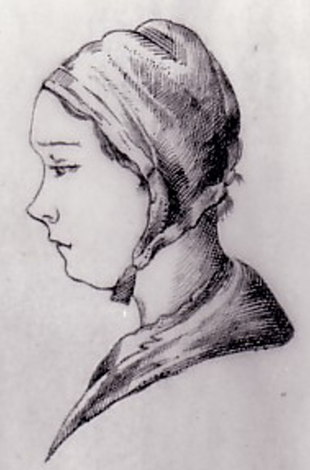 Catherine Phillips, born Payton (16 March 1727 – 16 August 1794) was a Quaker Minister, who travelled in England, Wales, Scotland, Holland and the American colonies. Guess at date of sketch